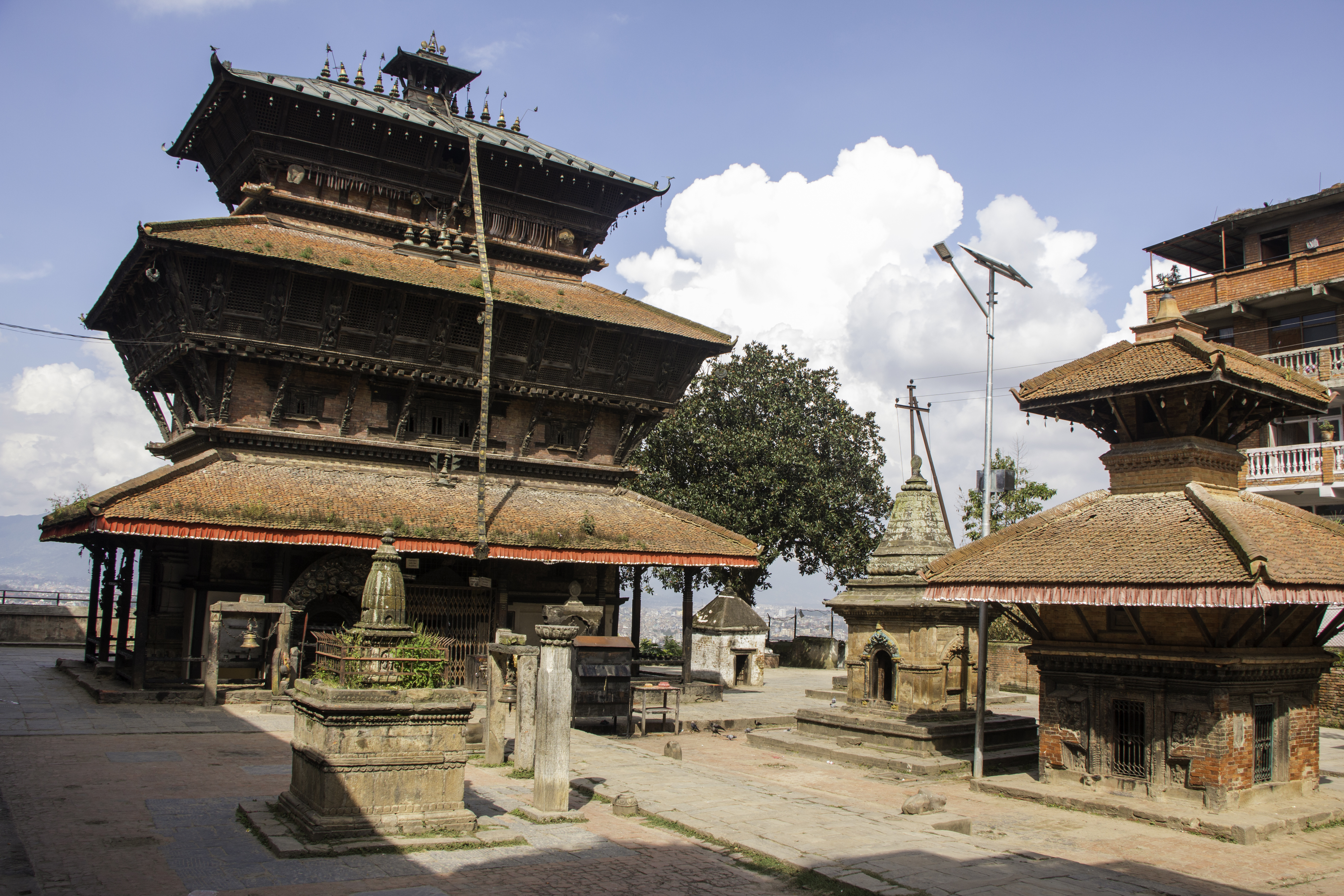 Bhaghbhairab temple and its surrounded temple's sculptures.